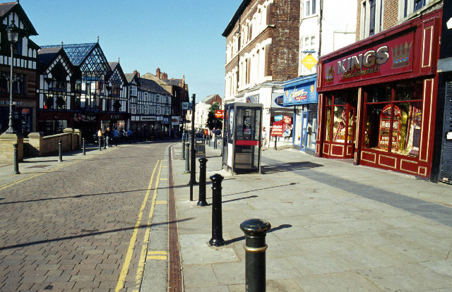 Market Square, Wigan